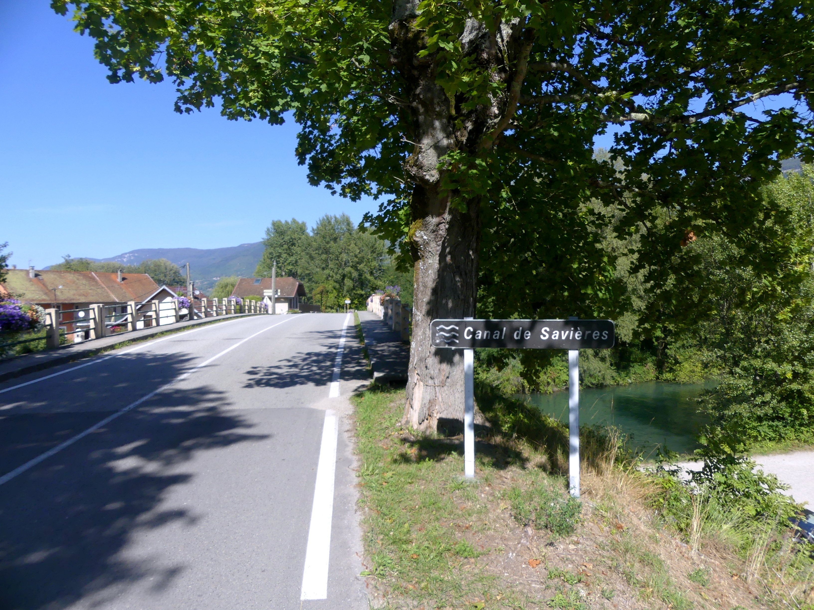 Sight of the former Route nationale 514 road crossing the Canal de Savières canal in Portout hamlet, in the north of Savoie, France.